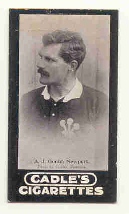 Joseph Arthur Gould Wales international rugby player, Cardiff club player